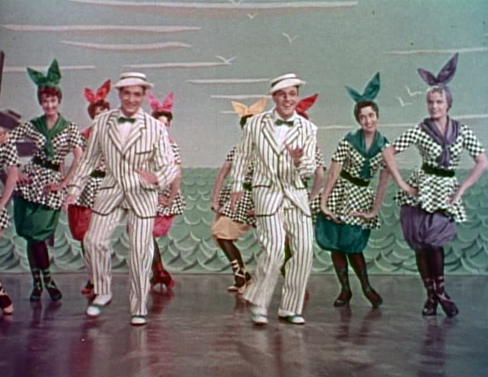 Screenshot from the trailer of the film "Deep In My Heart" (1954) showing brothers Fred and Gene Kelly.